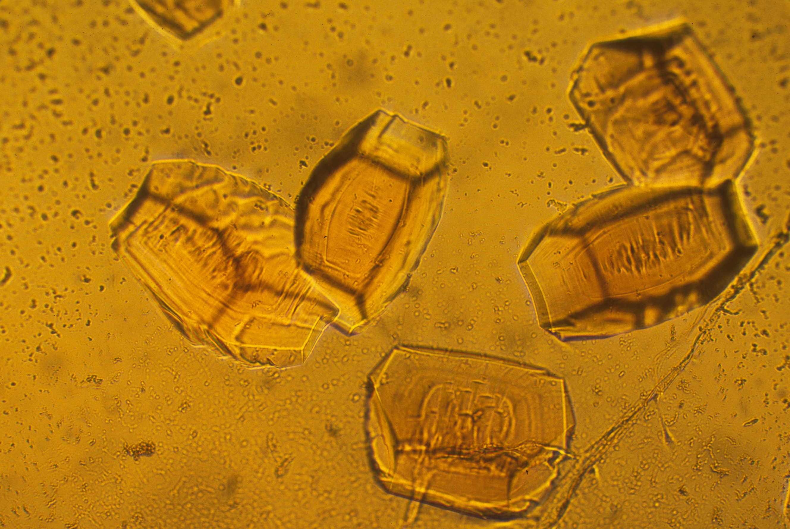 Protein crystals used in X-ray crystallography to determine protein structure.